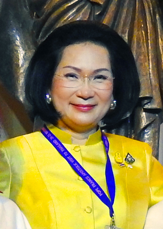 KhunyingPatama Leeswadtrakul at Assumption Cathedral for His Holiness Pope Francis celebrates Holy Mass